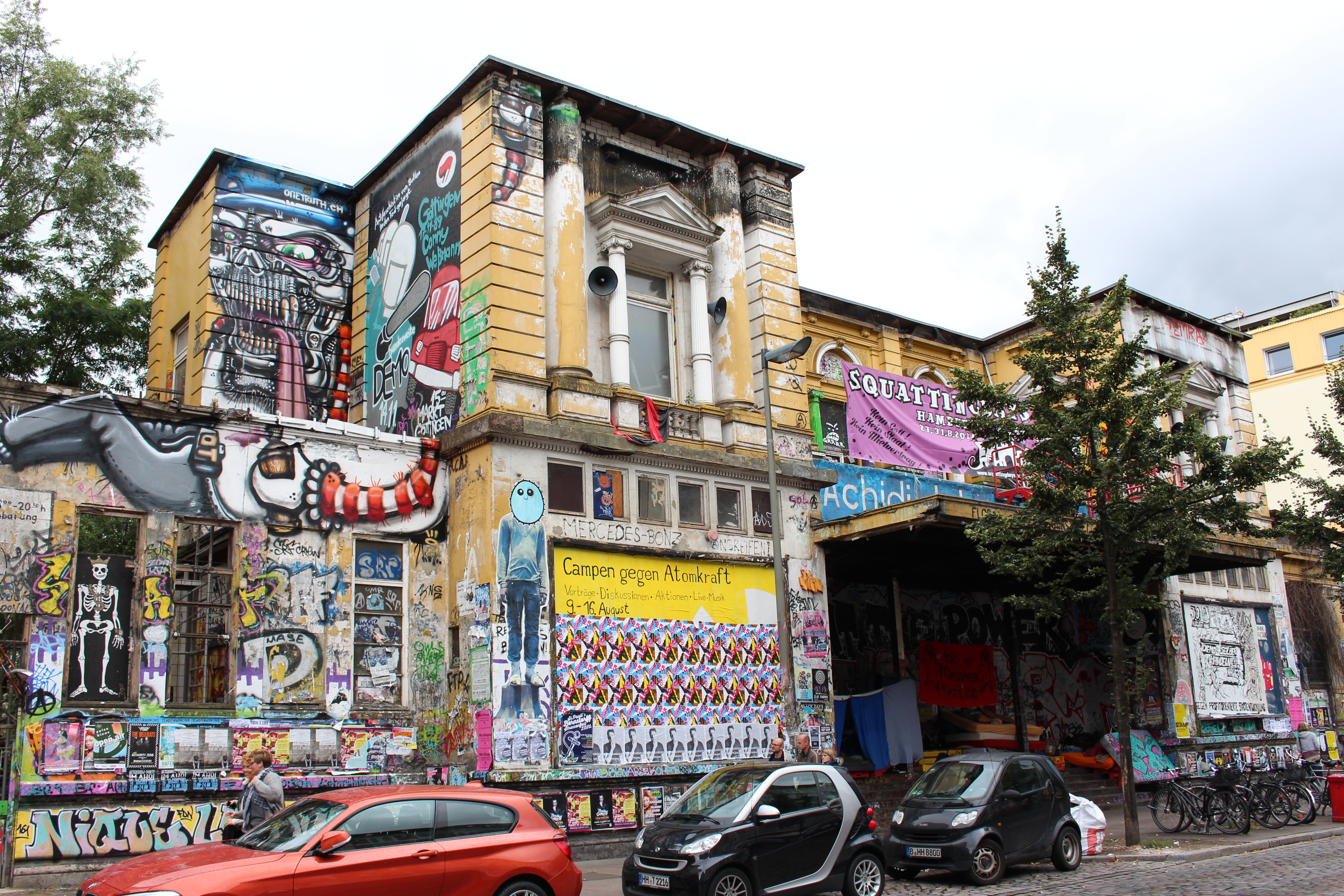 Lateral view of the Rote Flora.